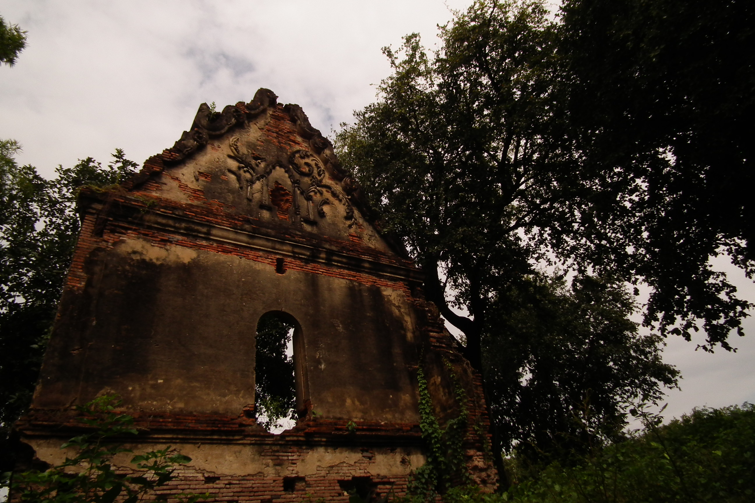 Wat Tawet (abandoned temple), Samphao Lom Subdistrict, Phra Nakhon Si Ayutthaya District, Phra Nakhon Si Ayutthaya Province